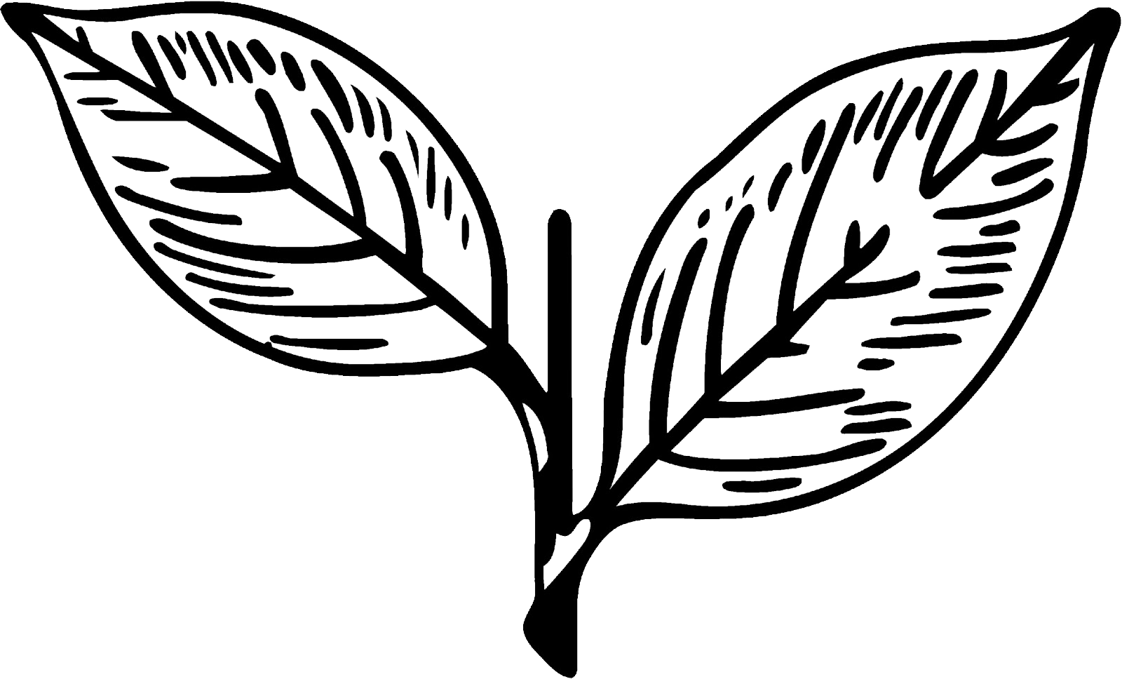 Generic image of two leaves, which is also the party symbol for All India Anna Dravida Munetra Kazhagam (AIADMK/ADMK) a regional political party in India.